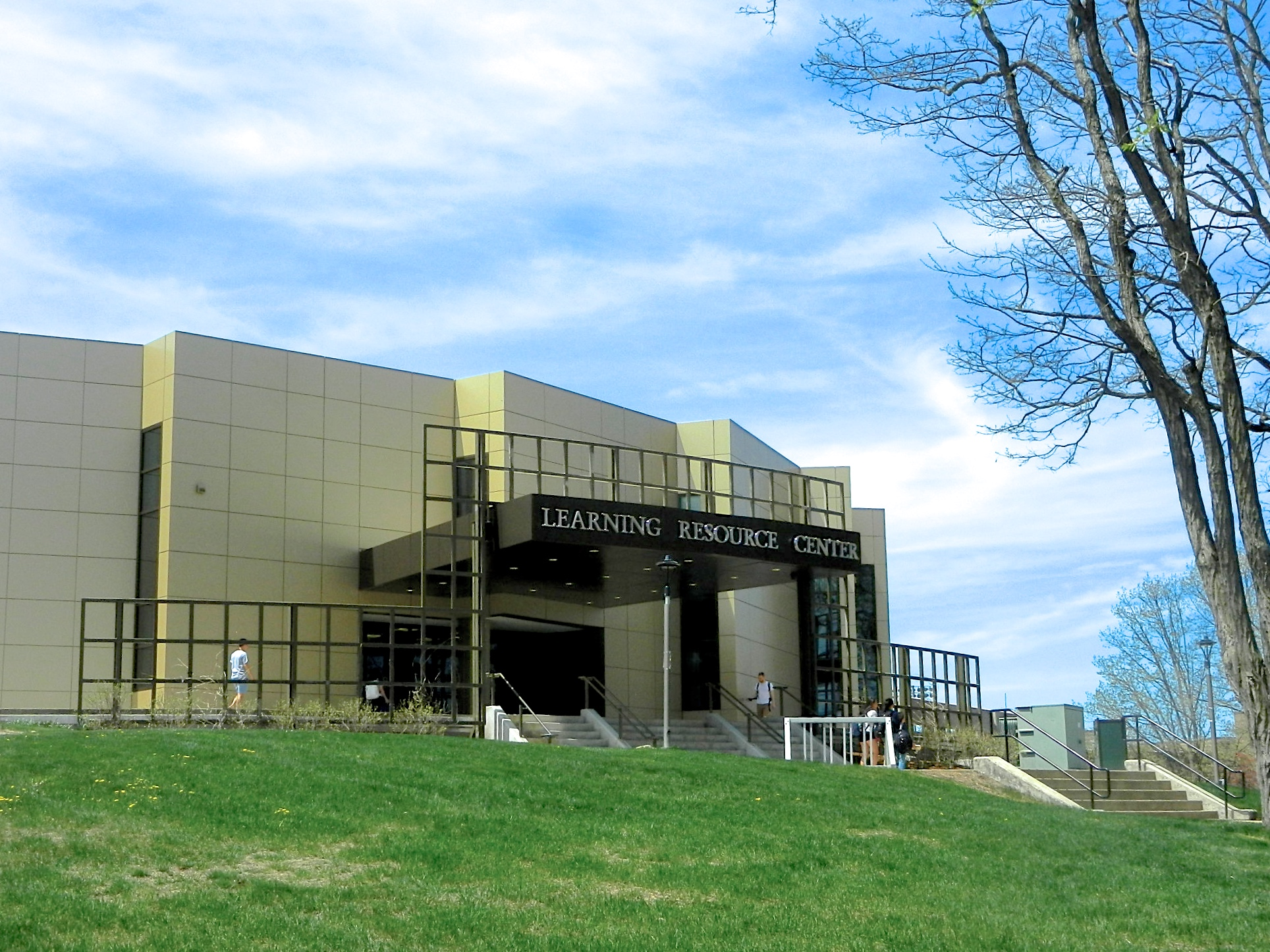 The Learning Resource Center on the campus of Worcester State University in Worcester, Massachusetts